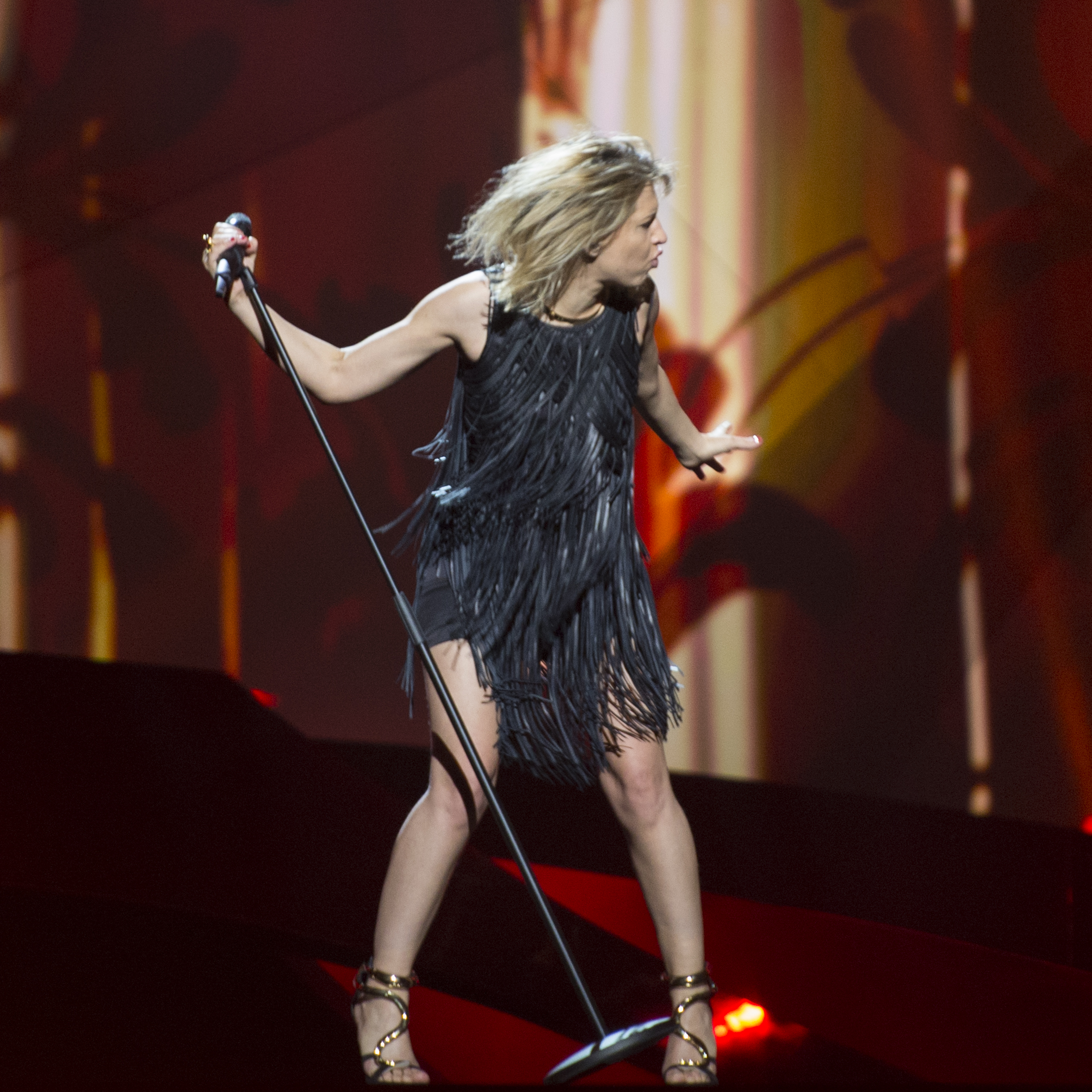 Amandine Bourgeois representing France with the song "L'enfer et moi" during the first dress rehearsal for "the Big Five" in the Eurovision Song Contest 2013 in Malmö. (Help translate this text)